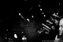 It's Casual